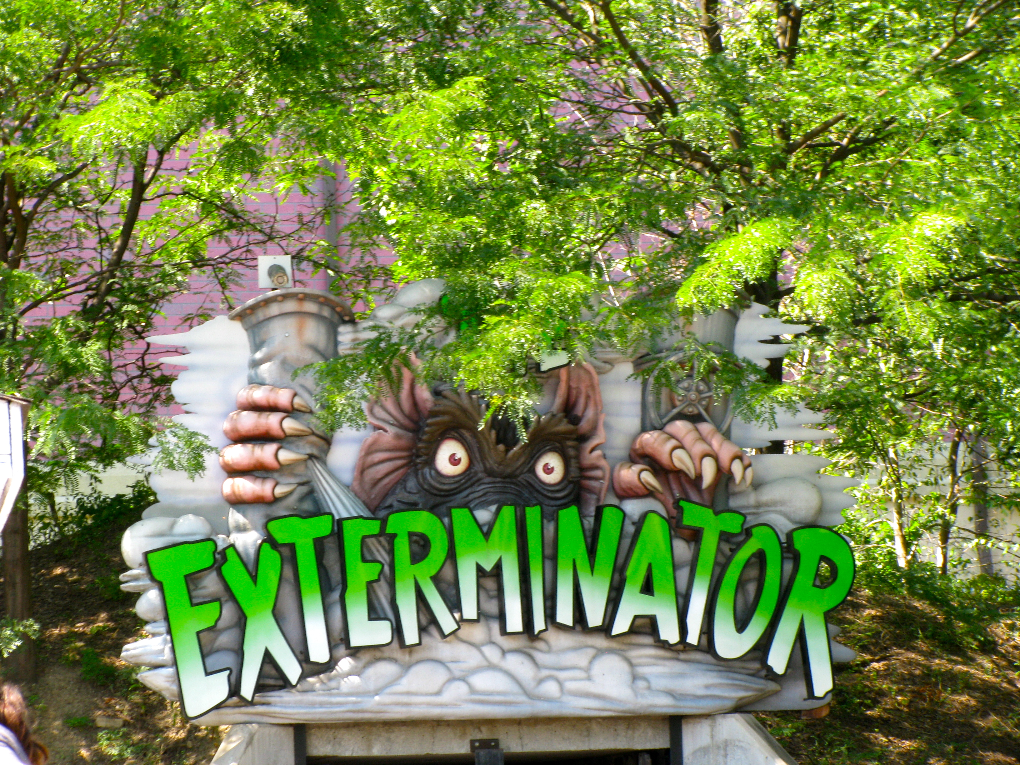 Sign from the Exterminator Dark Ride/Coaster at Kennywood Park.